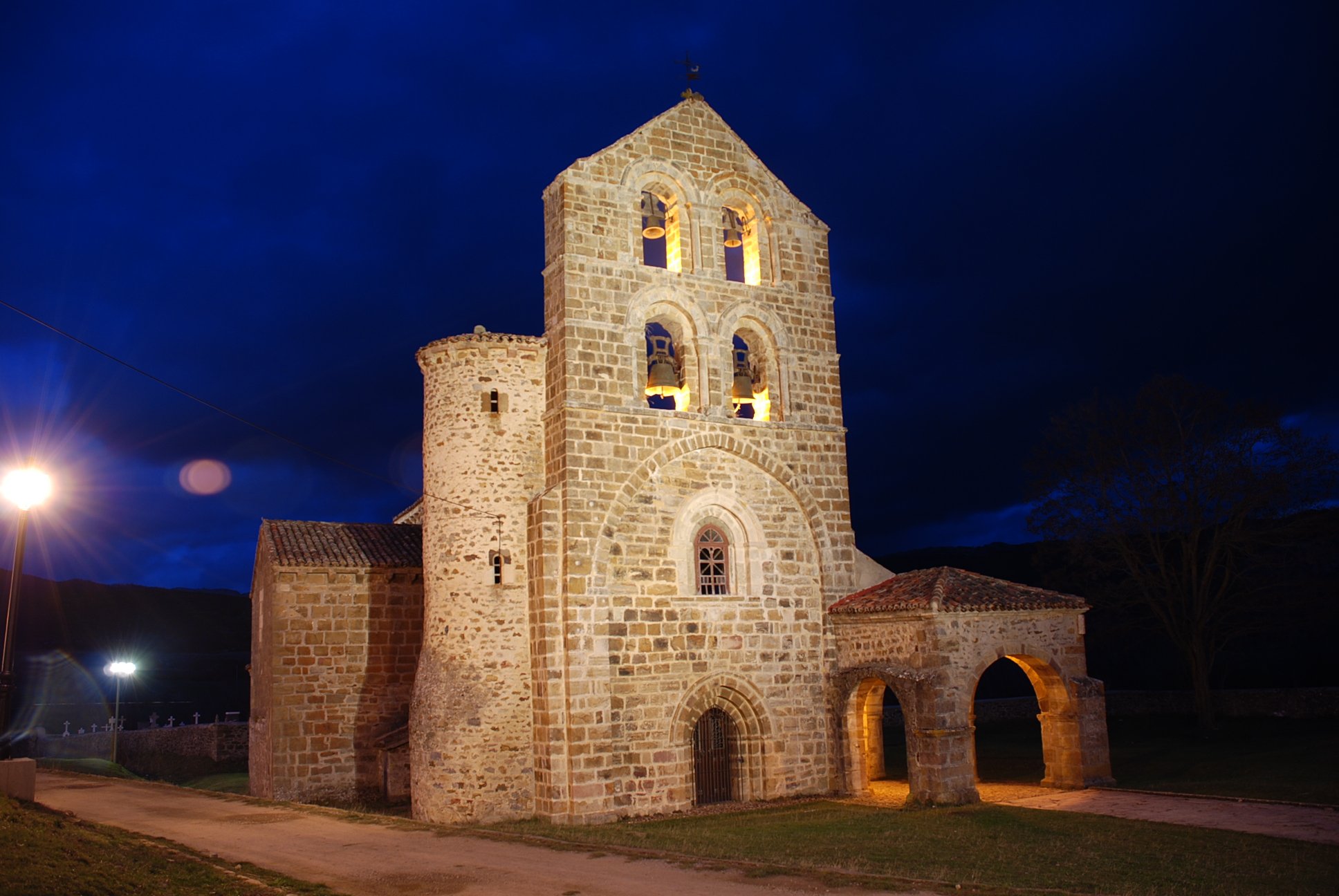 Church of San Salvador in San Salvador de Cantamuda (Palencia, Castile and León).